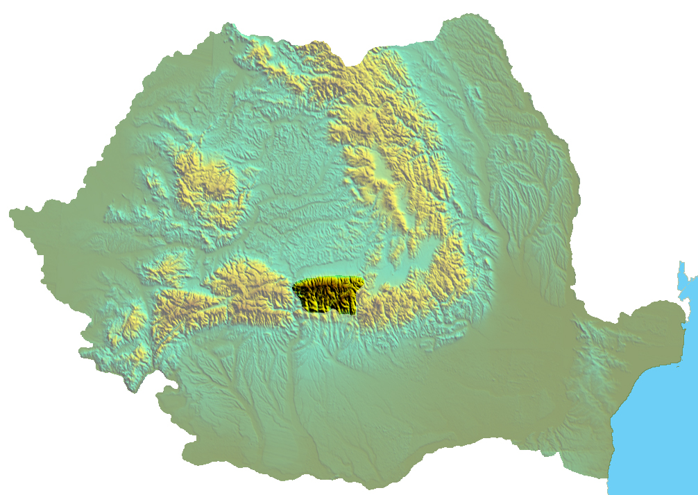 Fagaras Mountains in Romania